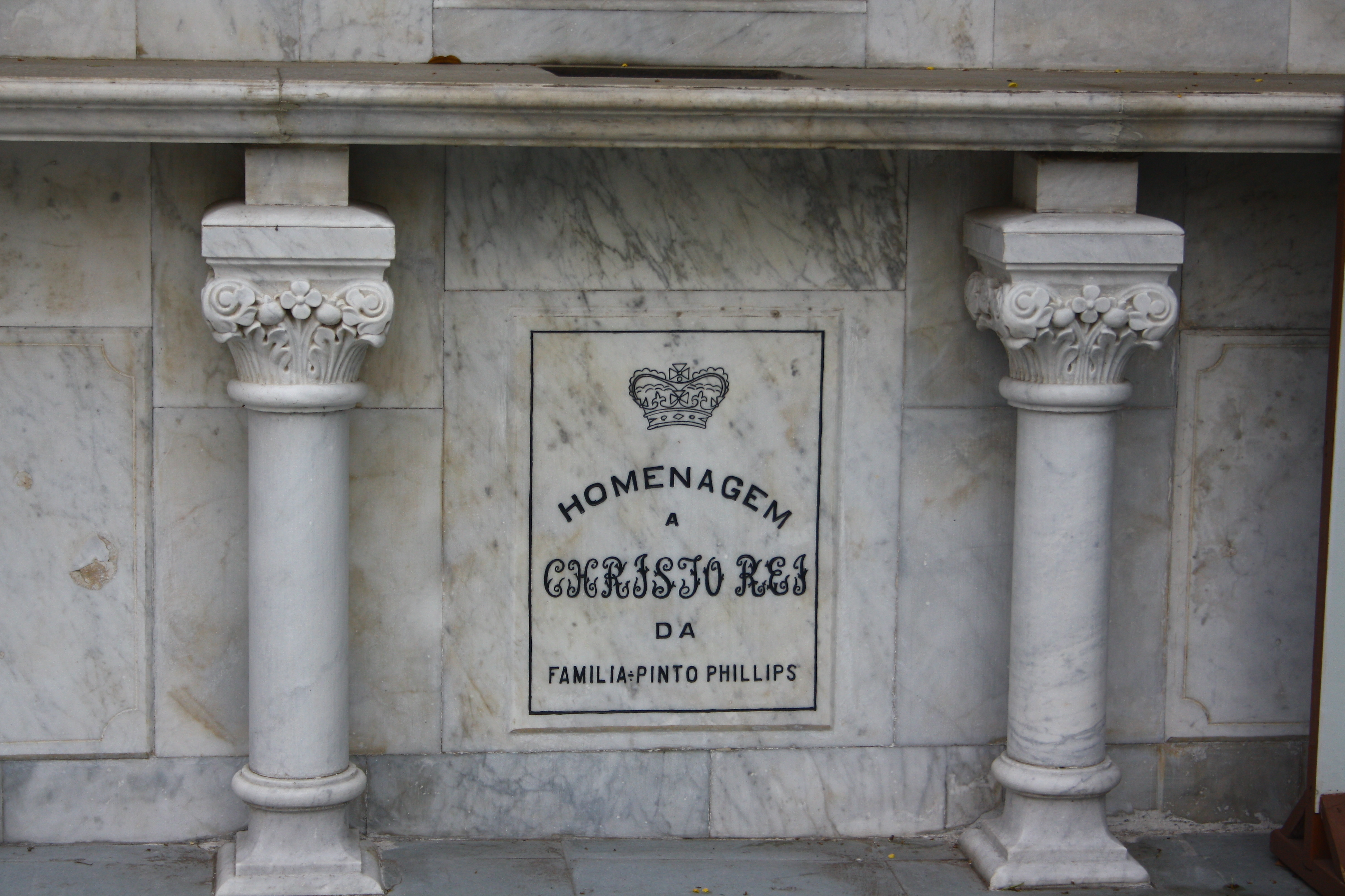 Photograph taken for Wikipedia Takes Pune on 7th October, 2012.